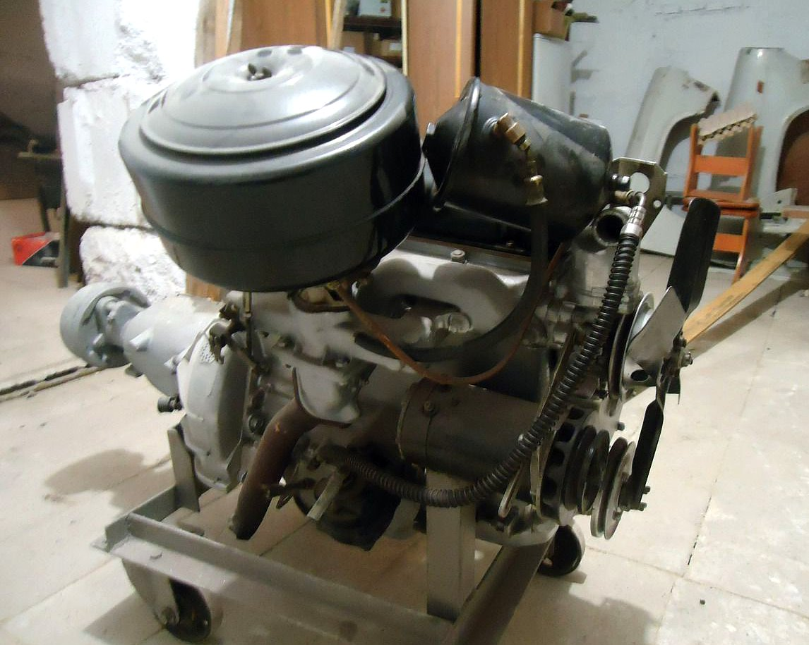 A restored GAZ-21 engine, view from right.